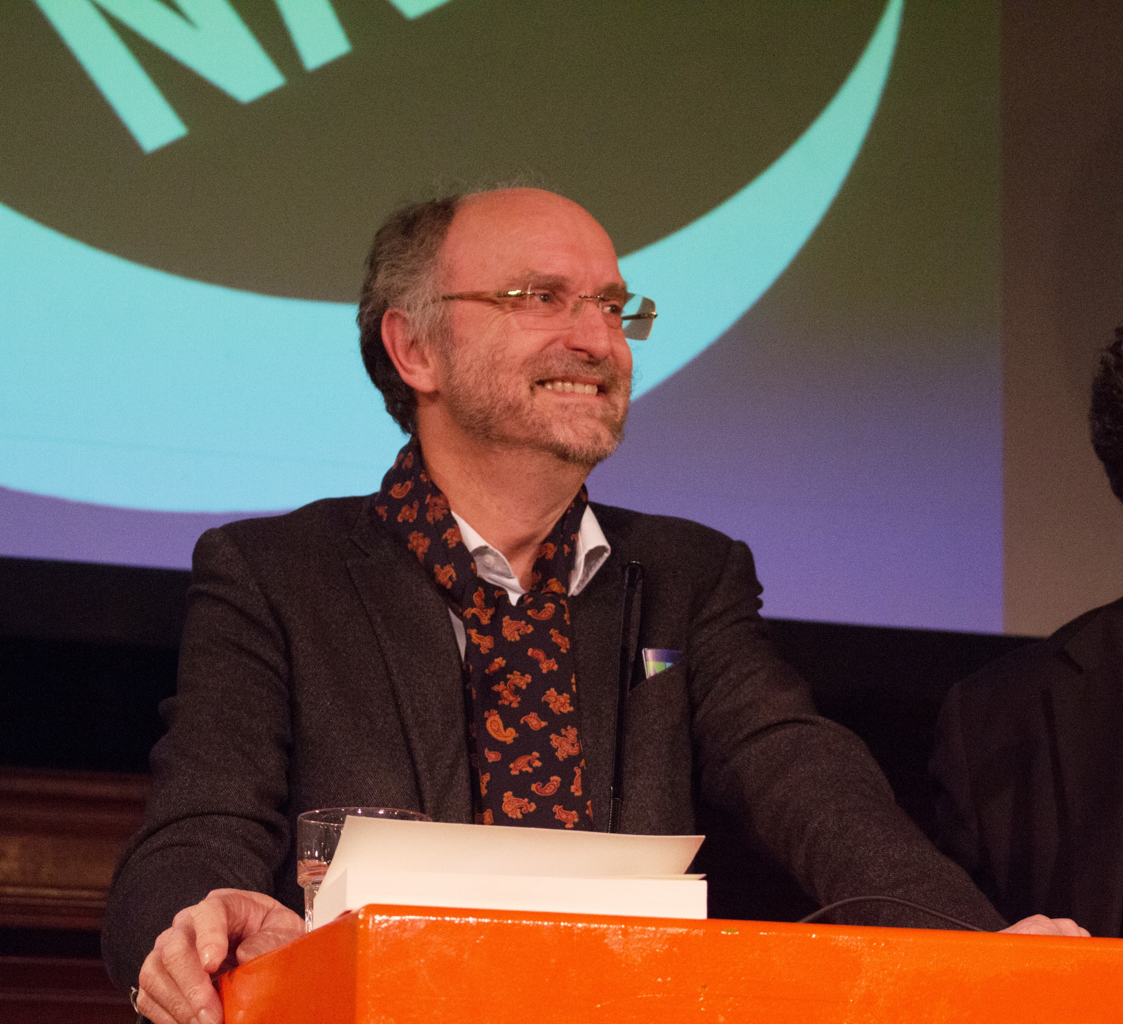 Paul Cliteur at the Debatnacht of Arminius